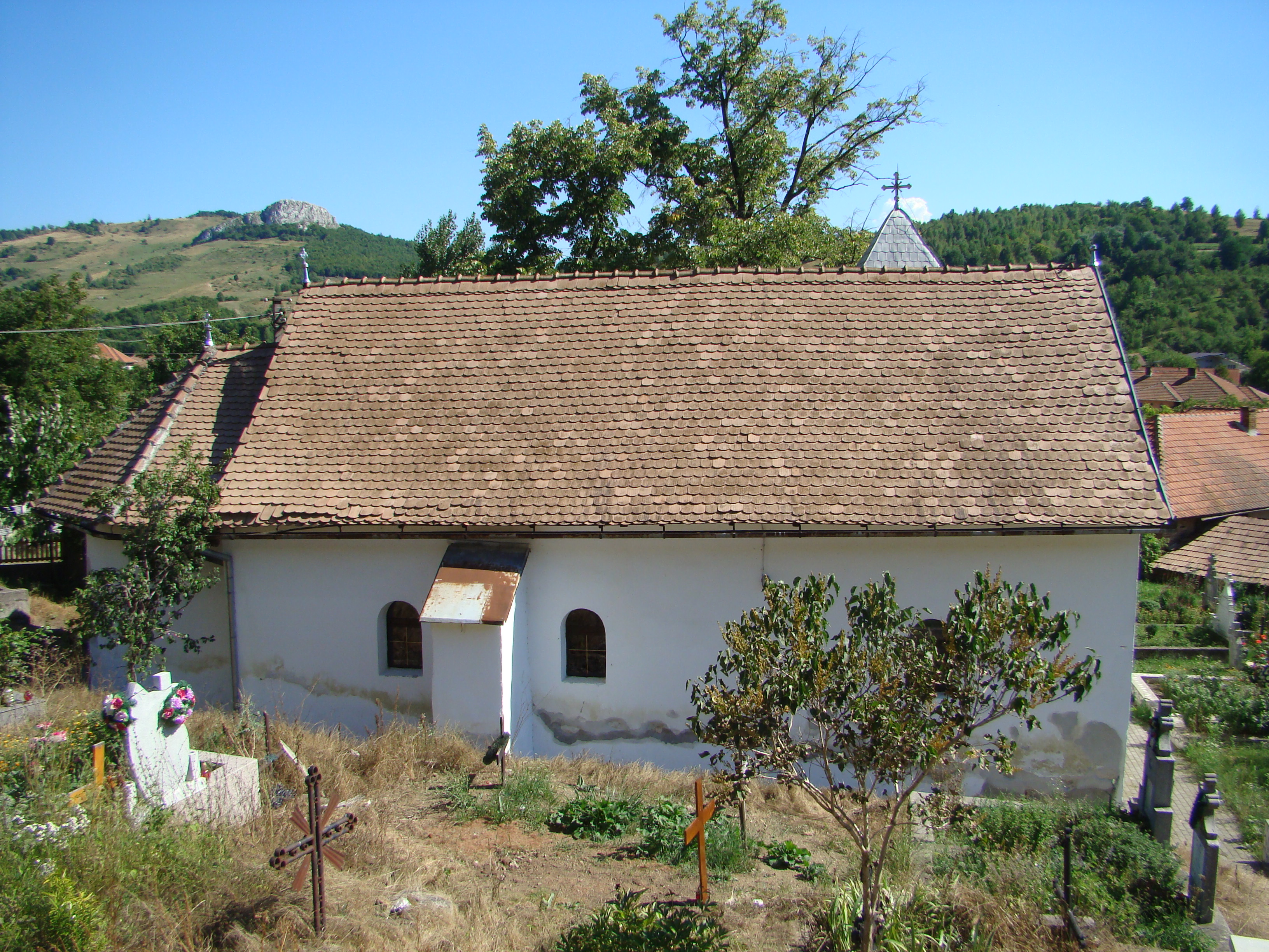 Saint Paraskeva's church in Ampoița, Alba county, Romania